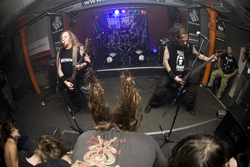 From left: Cezary "Cezar" Augustynowicz, Łukasz "Icamaz" Sarnacki, Tomasz "Reyash" Rejek